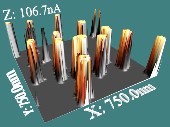 Visualization of conuctive filaments in HfO2 thin films for RRAM memories